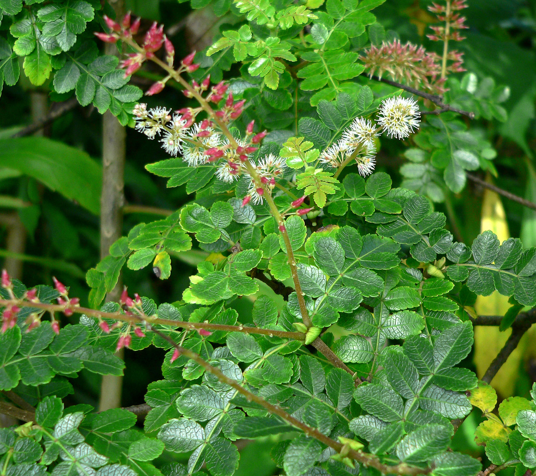 Weinmannia pinnata at the San Francisco Botanical Garden